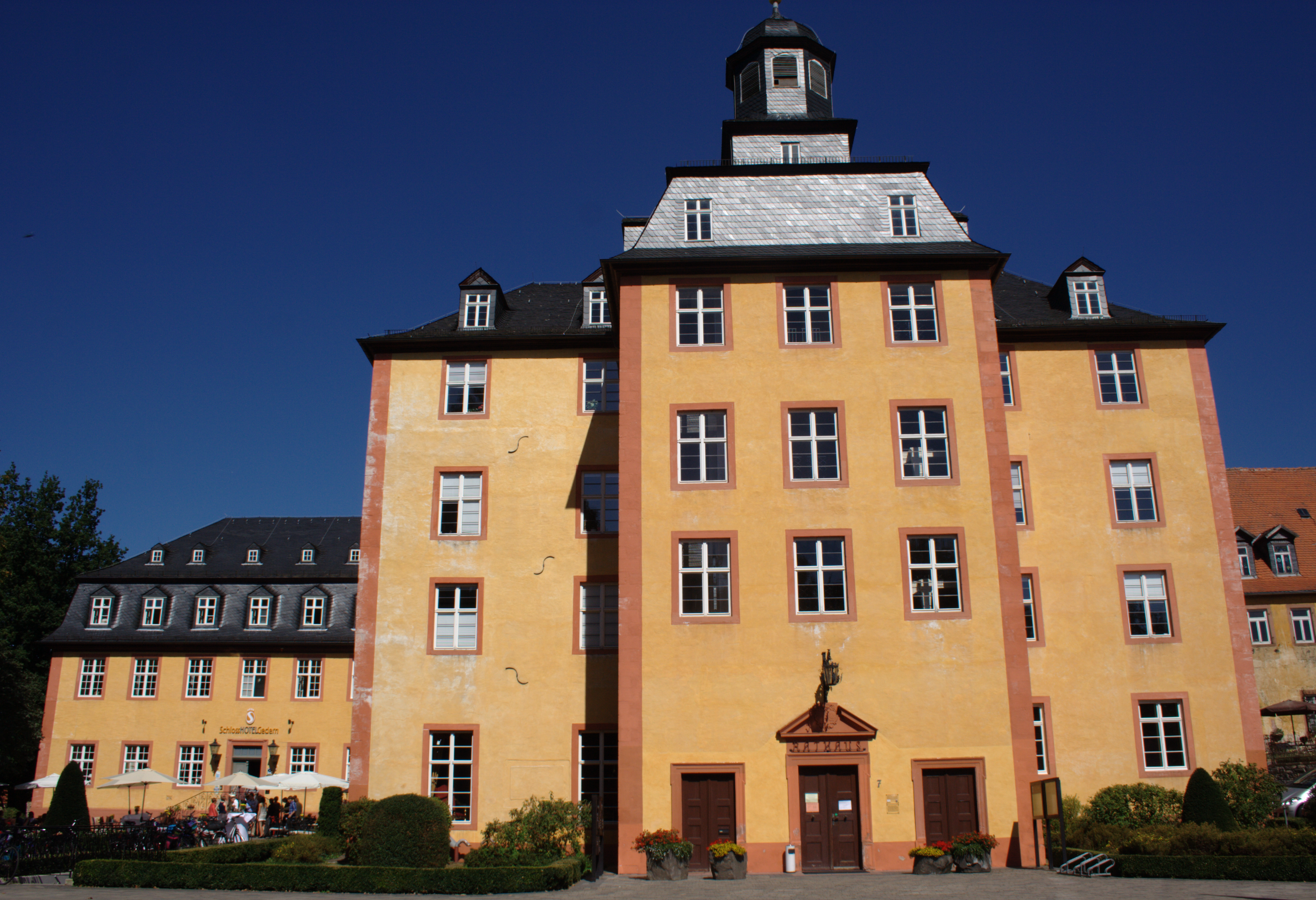 Main Building - Castle Gedern Schlossberg 7/ Hesse / GermanyThis is a photograph of an architectural monument.